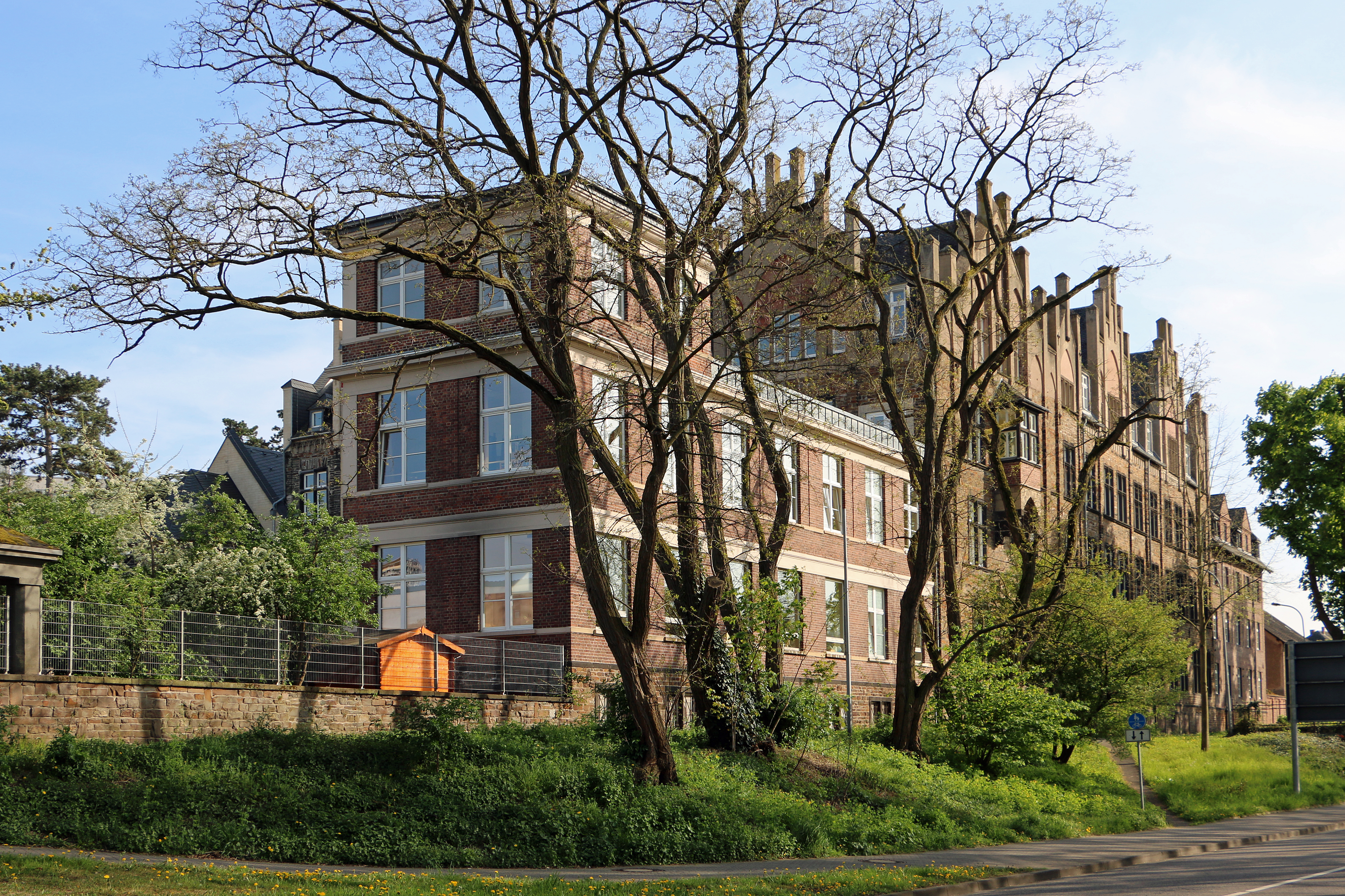 Old building of the hospital Kemperhof in Koblenz